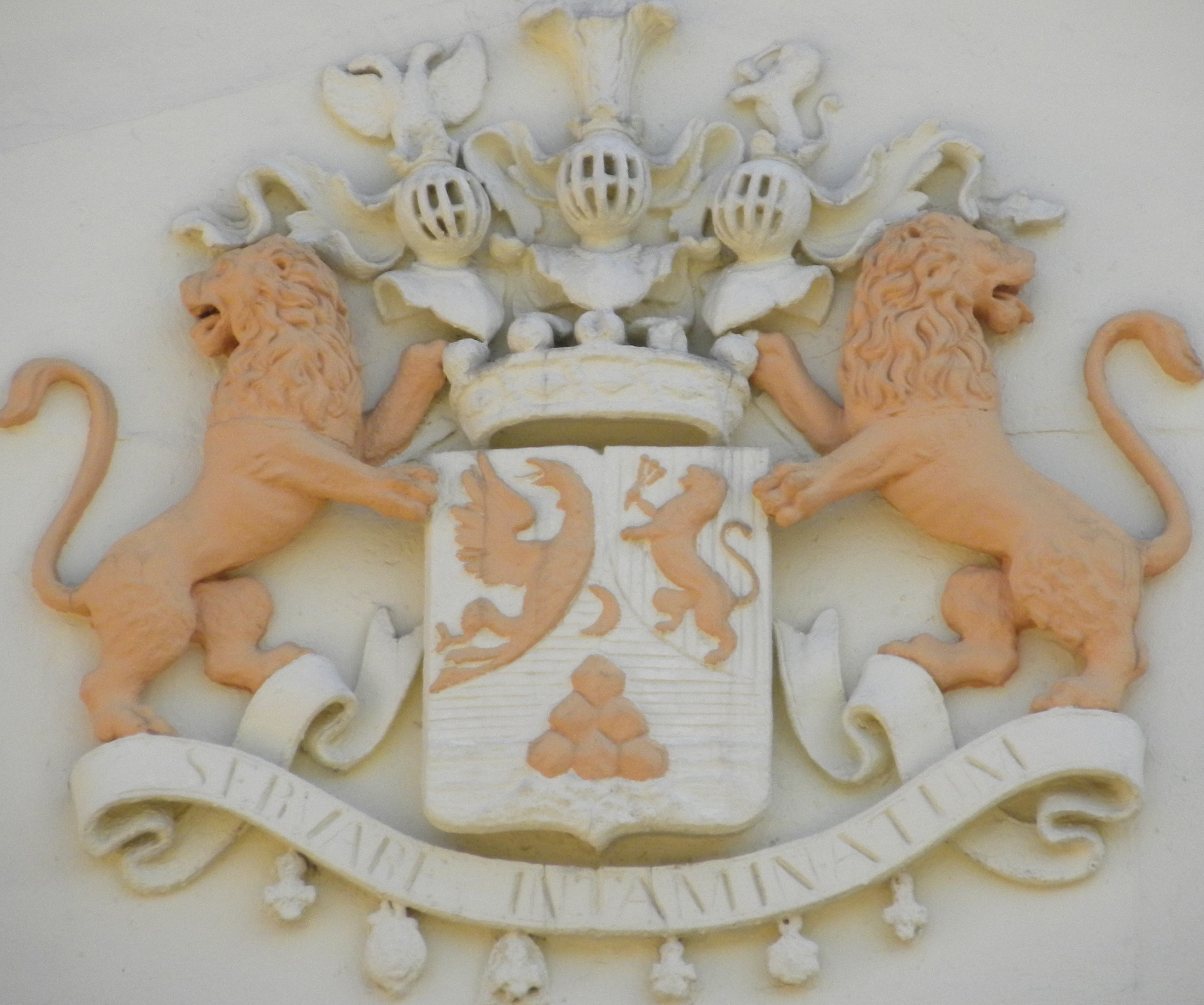 Coat of arms of Georgios Sinas / Georg von Sina (1783 - 1856). Tympanum of Villa Sina, Trenčianske Teplice, Slovakia.